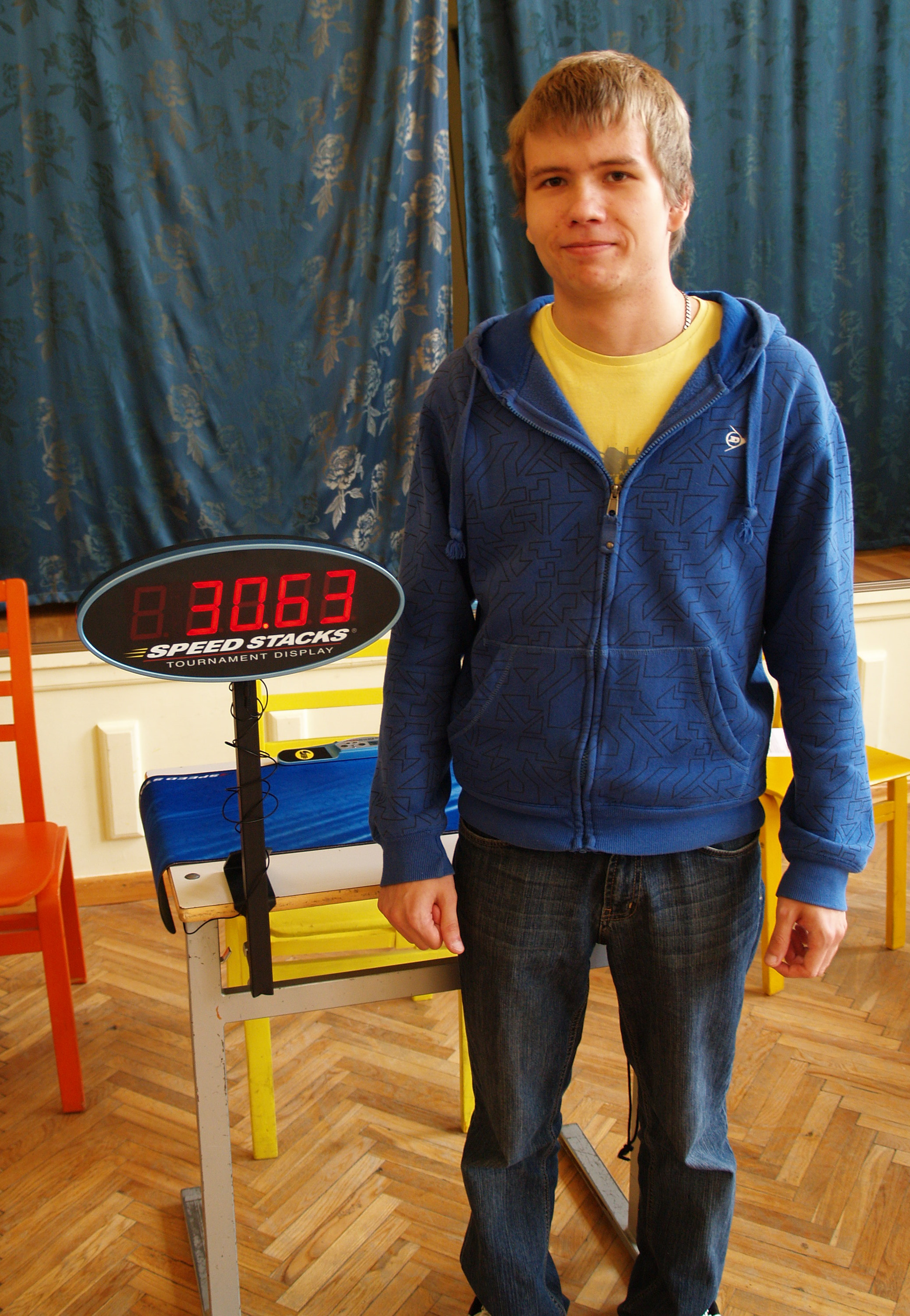 Estonian draughts player and Rubik's cube solver Anti Ingel after making a new Estonian record in solving the Rubik's cube with one hand.